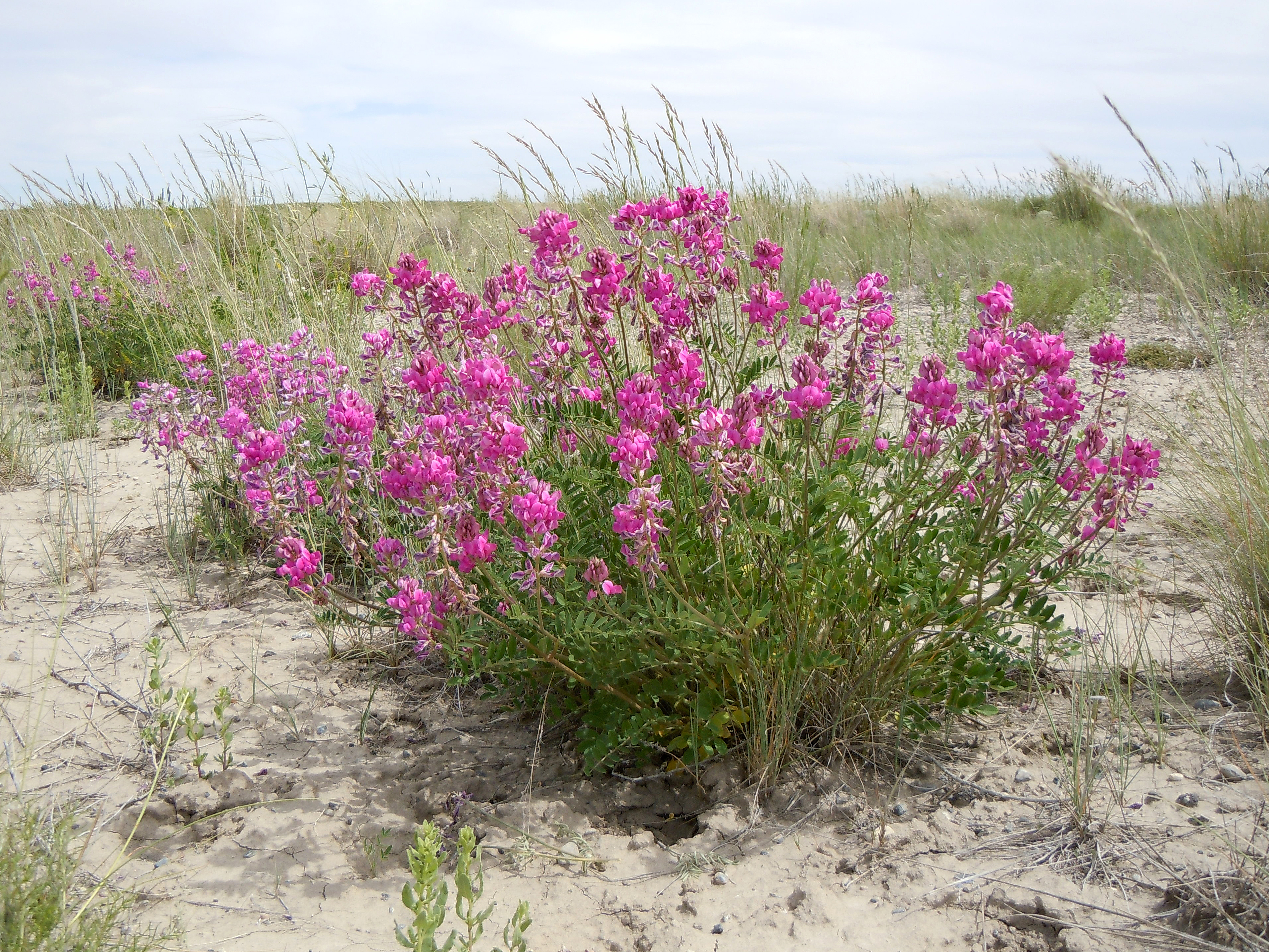 Hedysarum boreale in Butte County, Idaho, USA